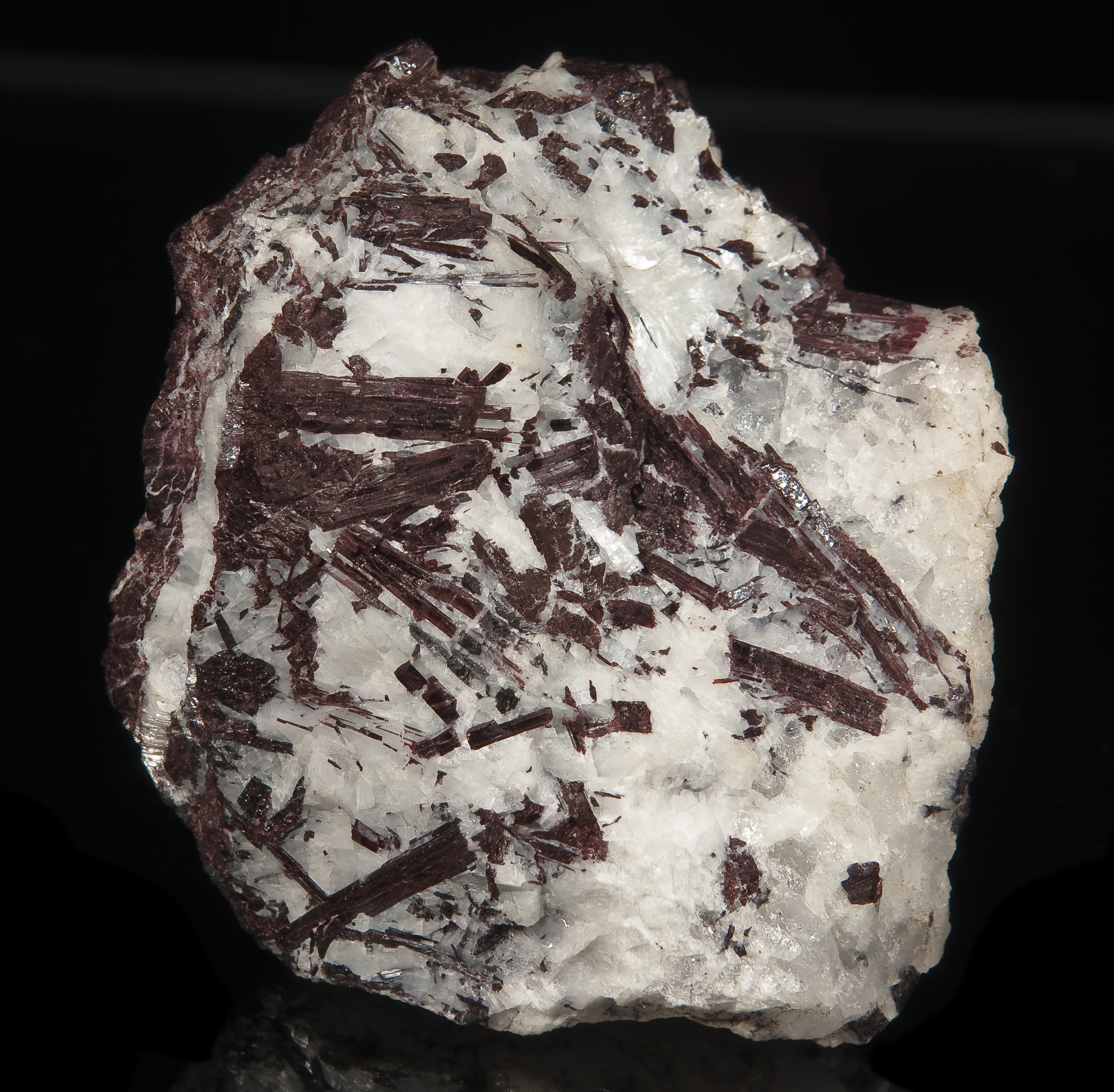 Piemontite Locality : Deposite topotype - Prabornaz Mine (ex Praborna Mine), Saint-Marcel, Aosta Valley, Italy Size : (5 × 4.5 cm)